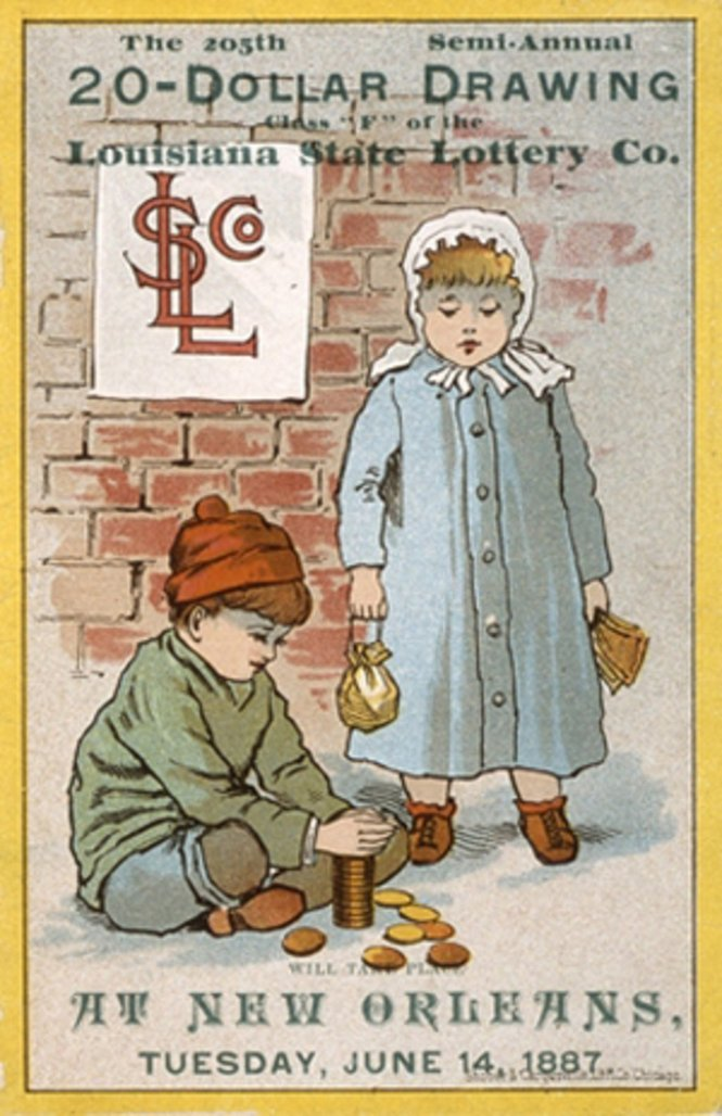 1887 advertising flier for the semi-annual Louisiana State Lottery drawing at New Orleans, 14 June. Artwork shows a boy and girl with coins and banknotes, presumably to symbolize the schoolchildren the lottery was advertised as benefiting.